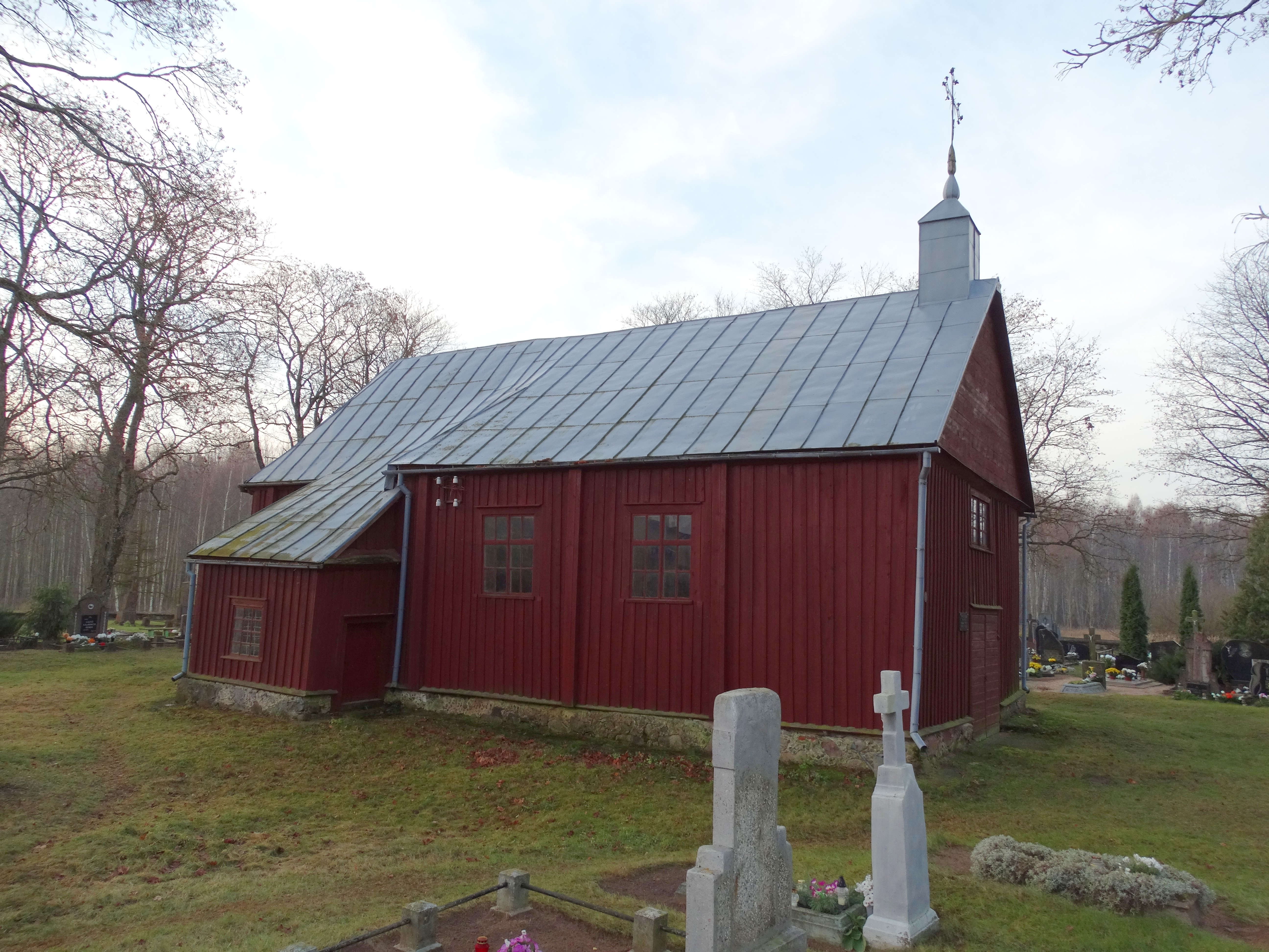 Chapel in Diliai, Biržai district, Lithuania